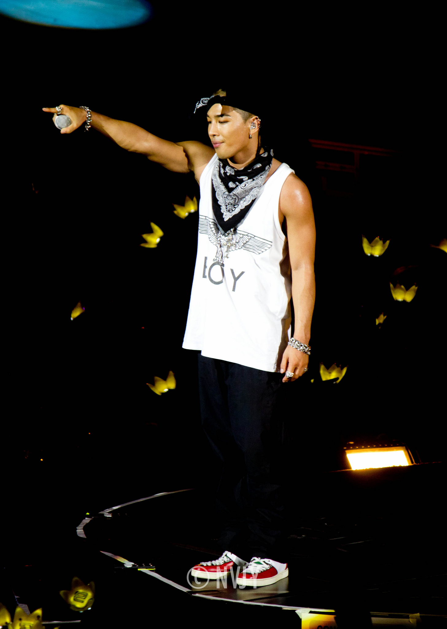 Taeyang performing on Alive World tour